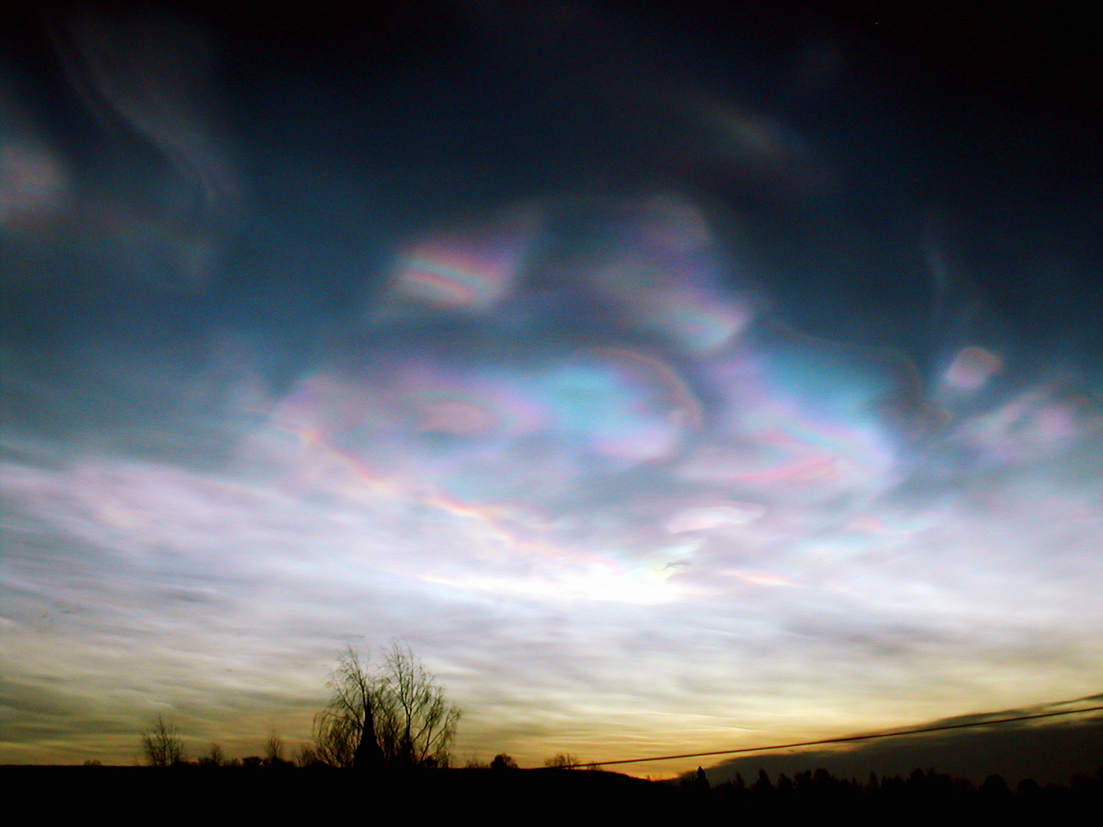 Polar Stratospheric Clouds in the sky, picture is taken in the municipality of Asker, Norway.